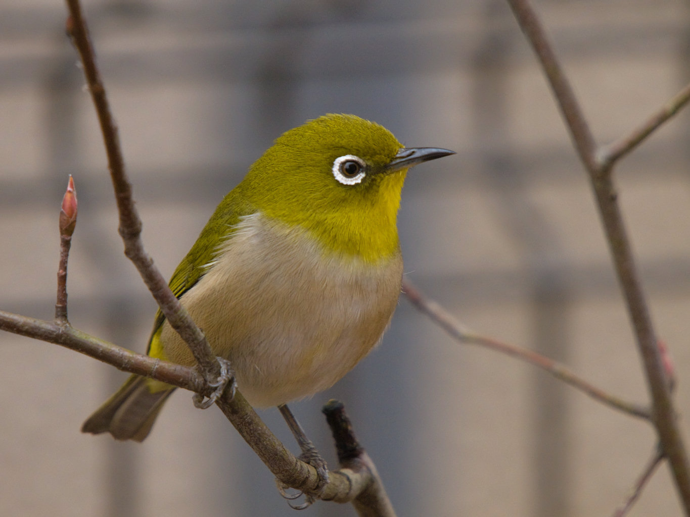 A Japanese White-eye in a back garden in Japan.